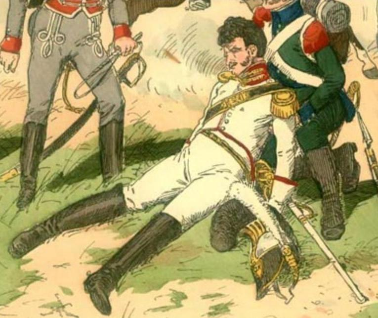 Uniform plate, high ranking Officer of the 1. Westphalian Cuirassier Regiment, 1812